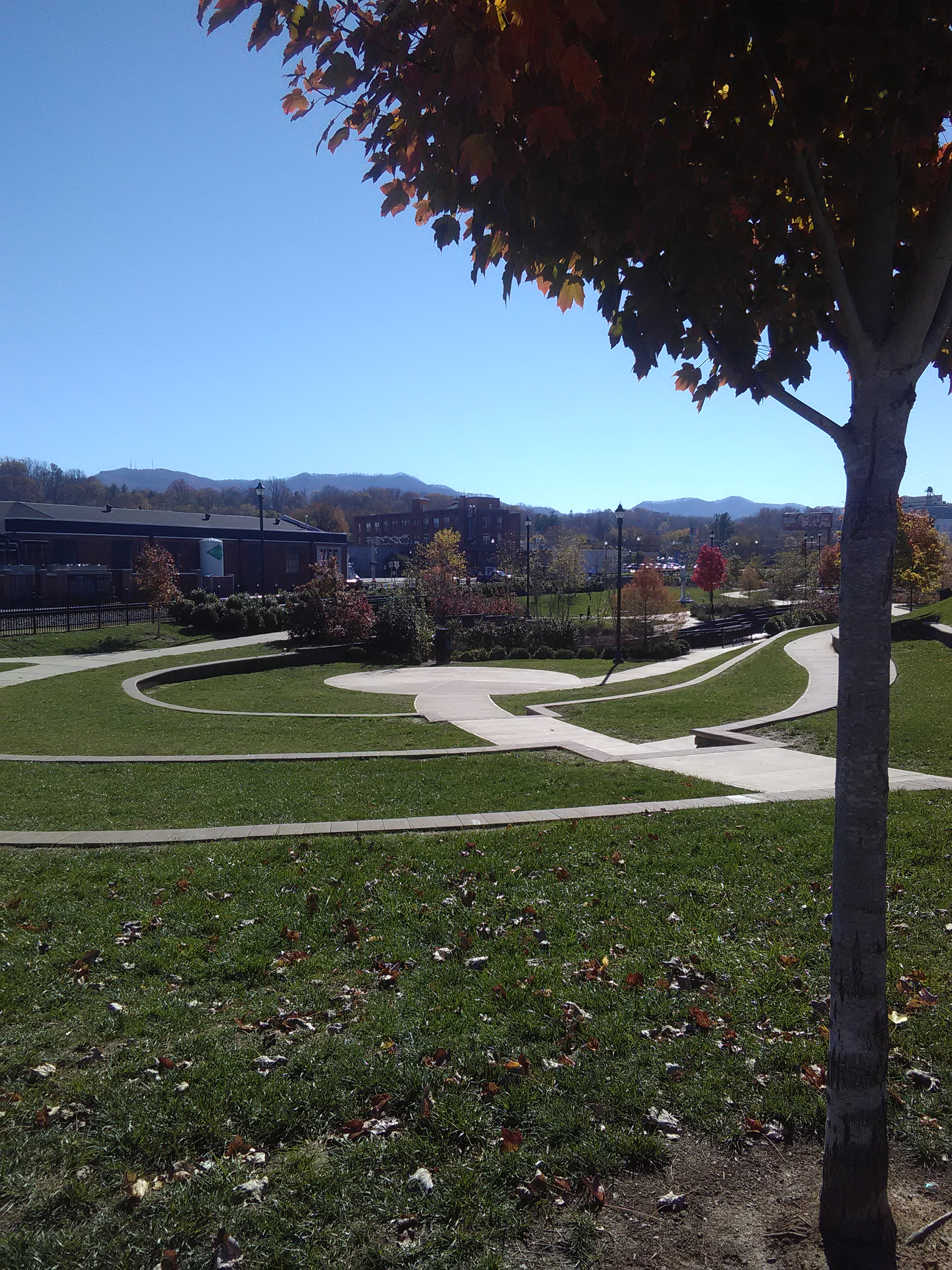 Founders Park in fall.